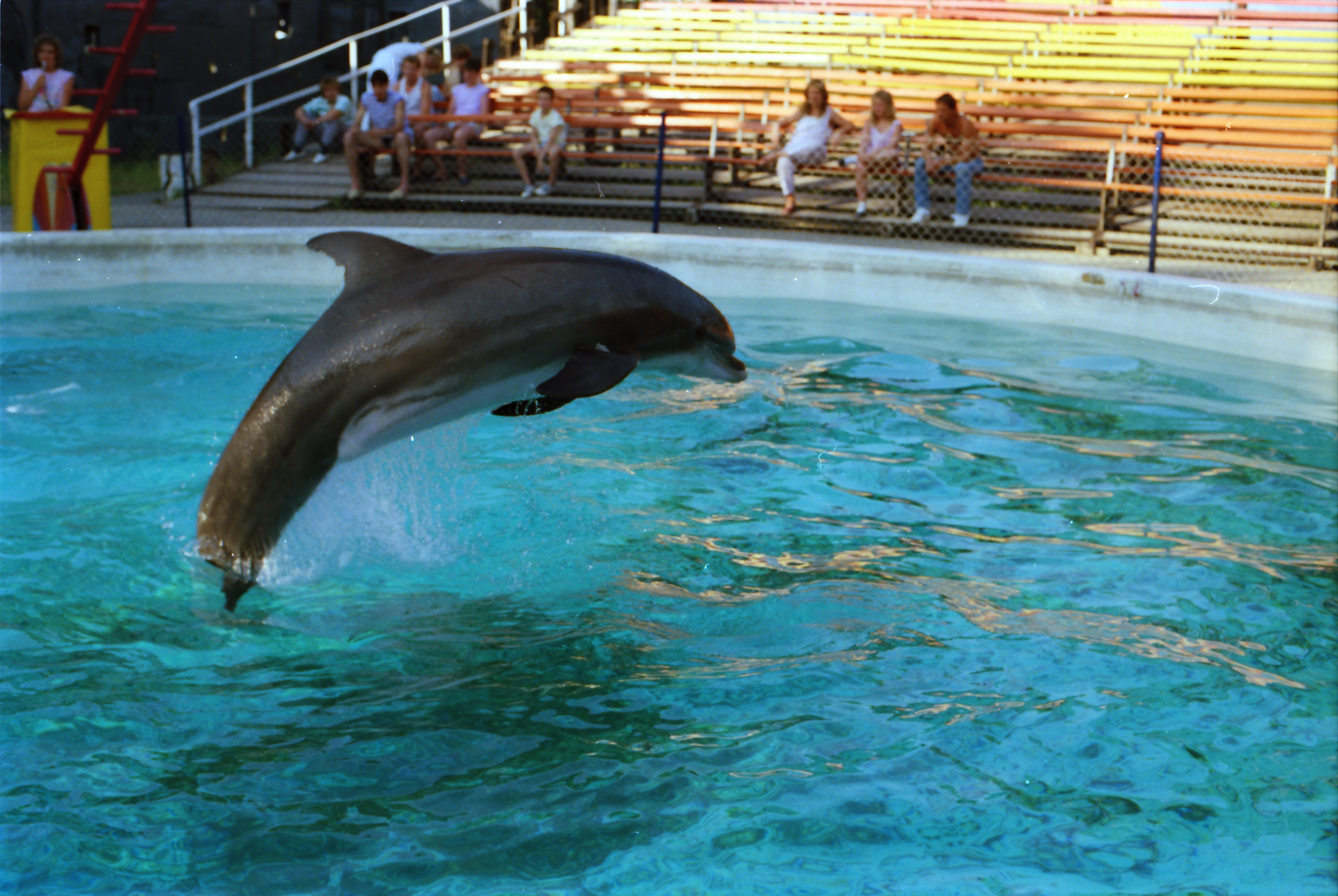 Safaripark Gänserndorf (1988)